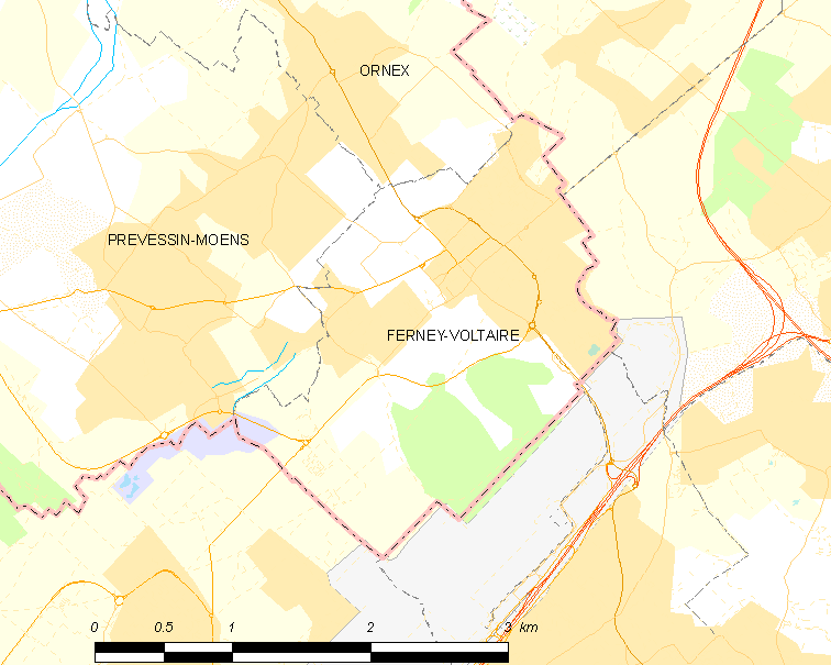 Map of French commune: Ferney-Voltaire Map commune FR insee code 01160.png